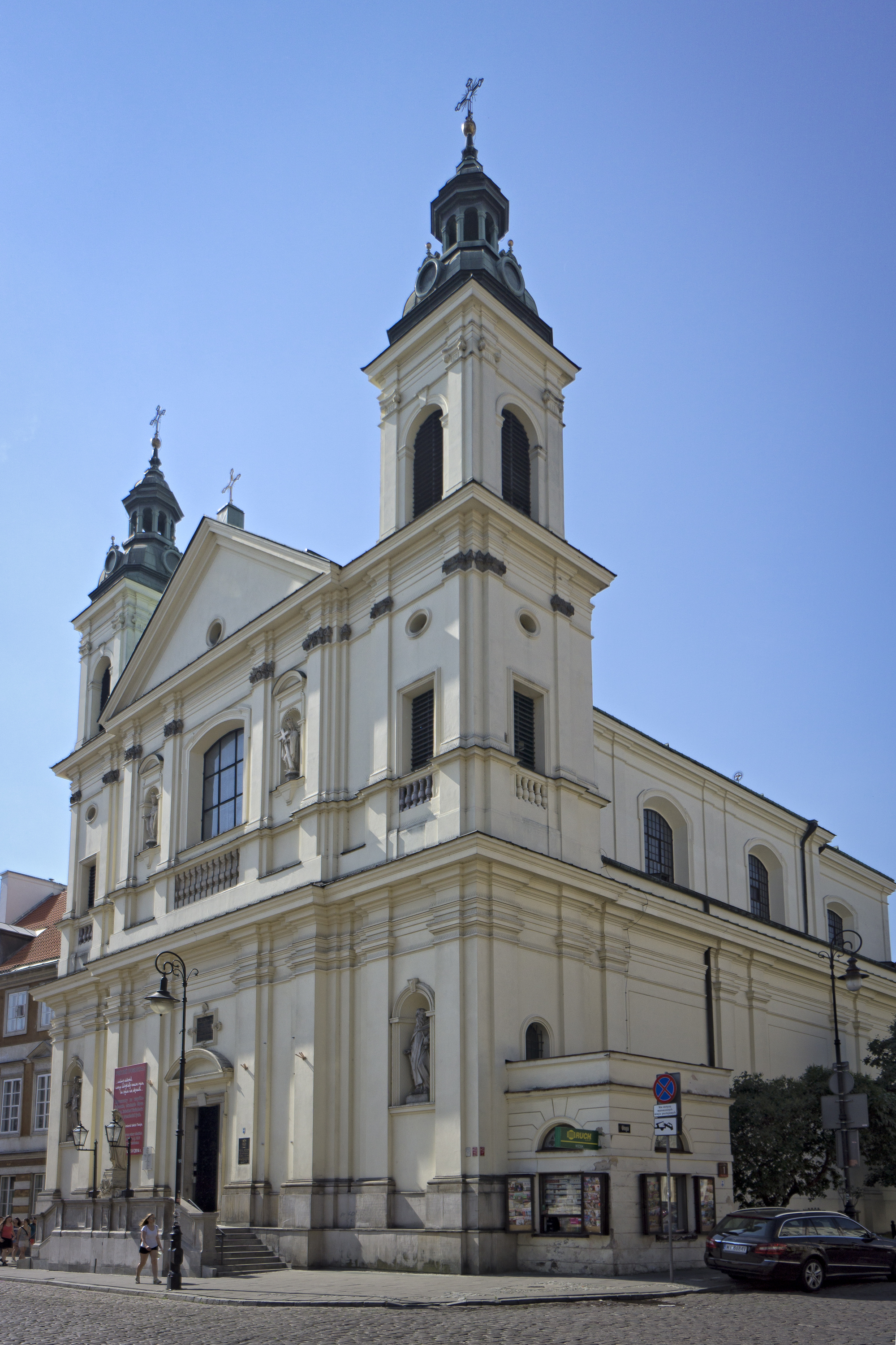 Holy Spirit church in Warsaw